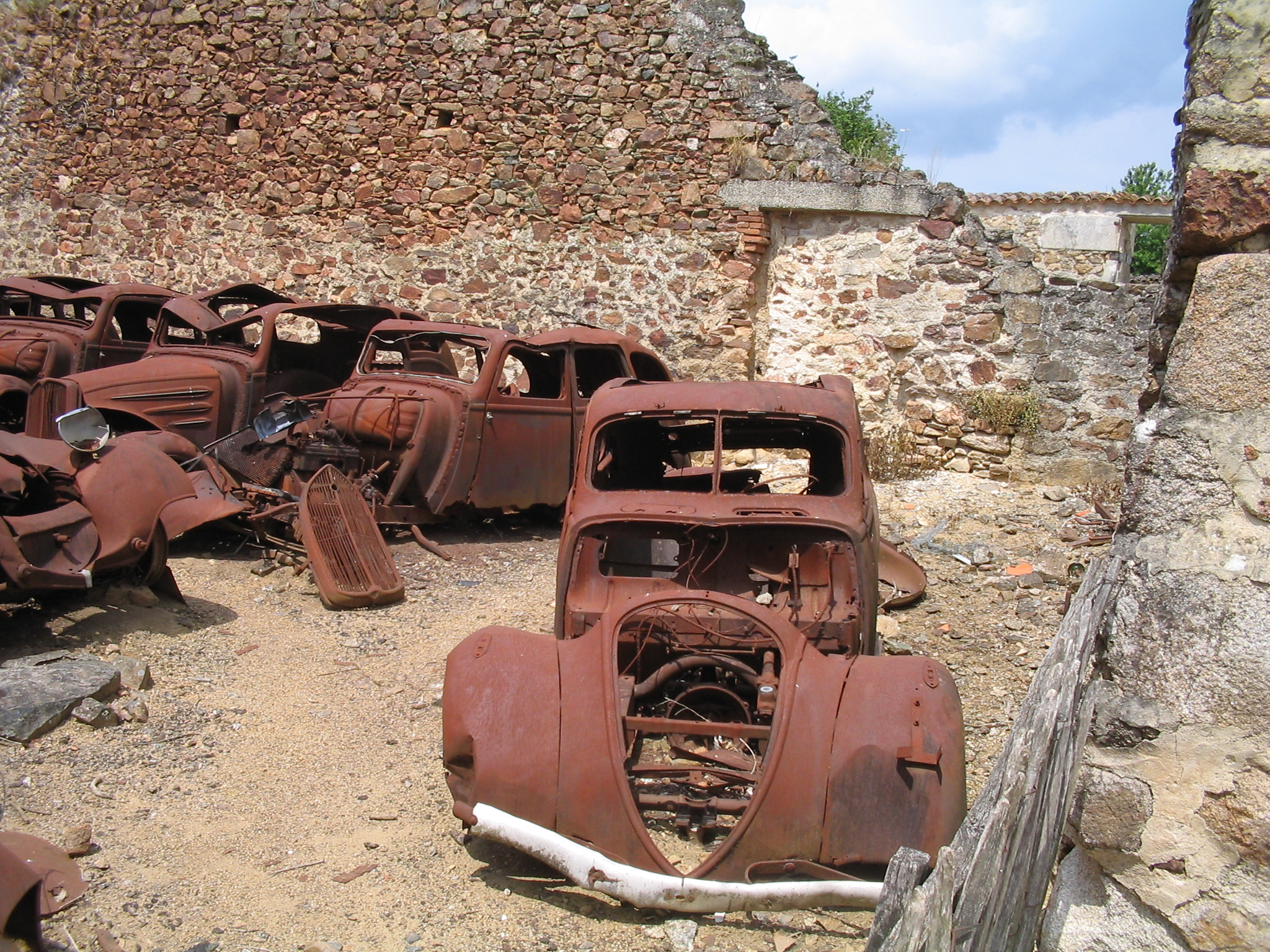 Wrecked cars in a garage in Oradour-sur-Glane (Haute-Vienne, Limousin, France). This is a photograph which I took during a visit on June 11 2004, exactly 60 years after its destruction by the German army during World War II.